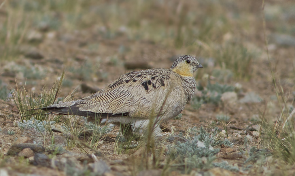 This image has been taken during the Ladakh trip with GoingWild in the month of August 2013.